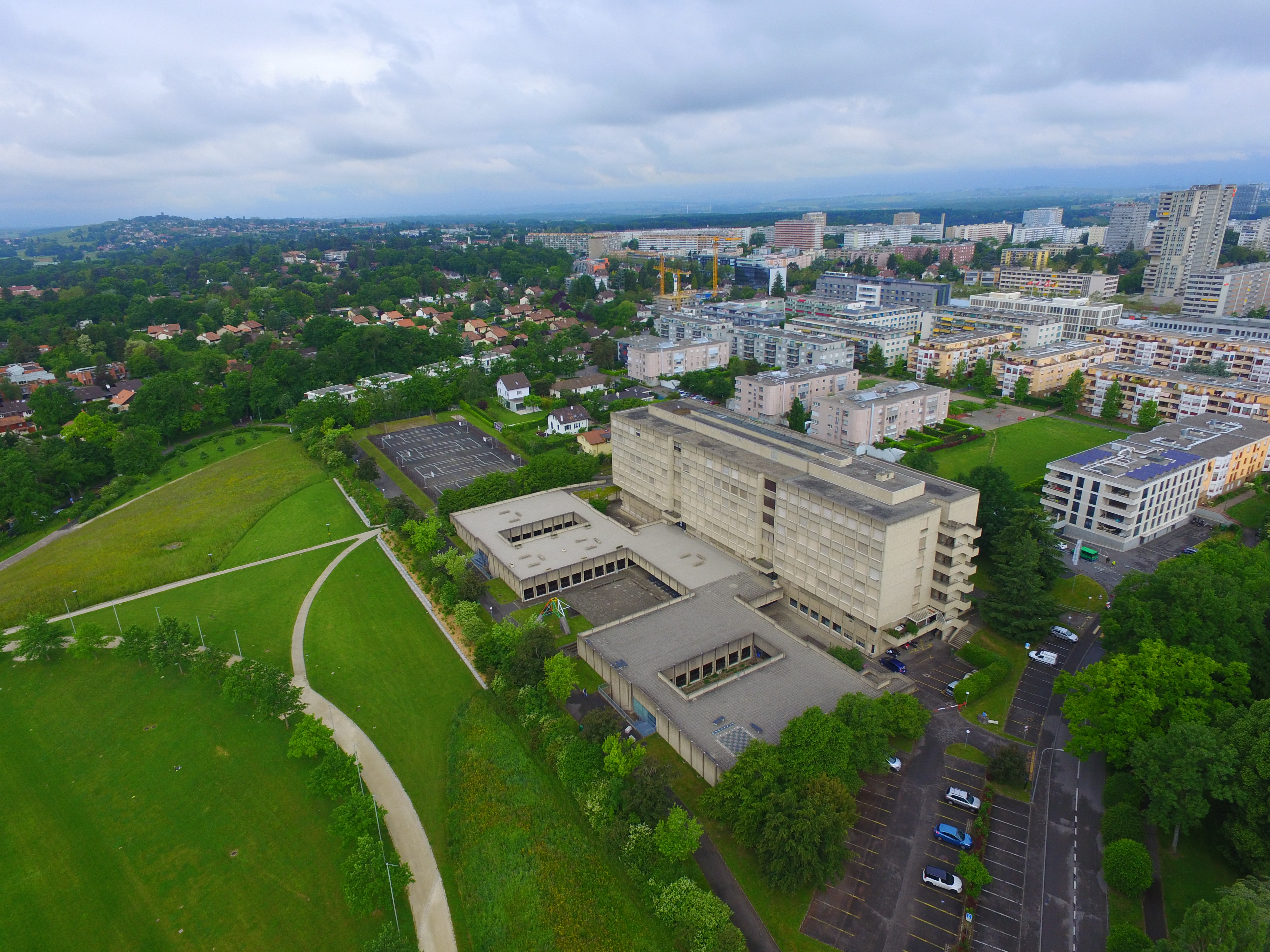 Collège de Saussure, aerial view